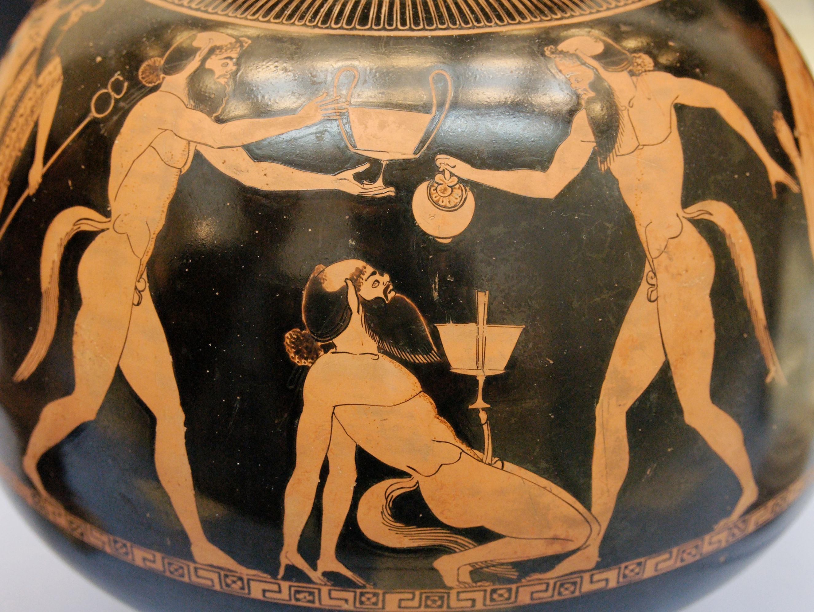 Drunk cavorting sileni. Detail from an Attic red-figured psykter.